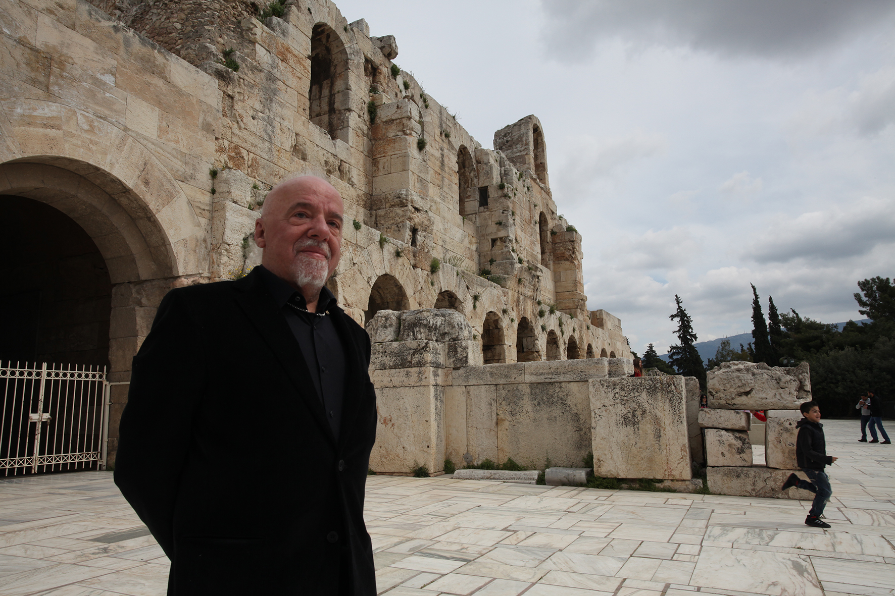 Brazilian lyricist and novelist Paulo Coelho.